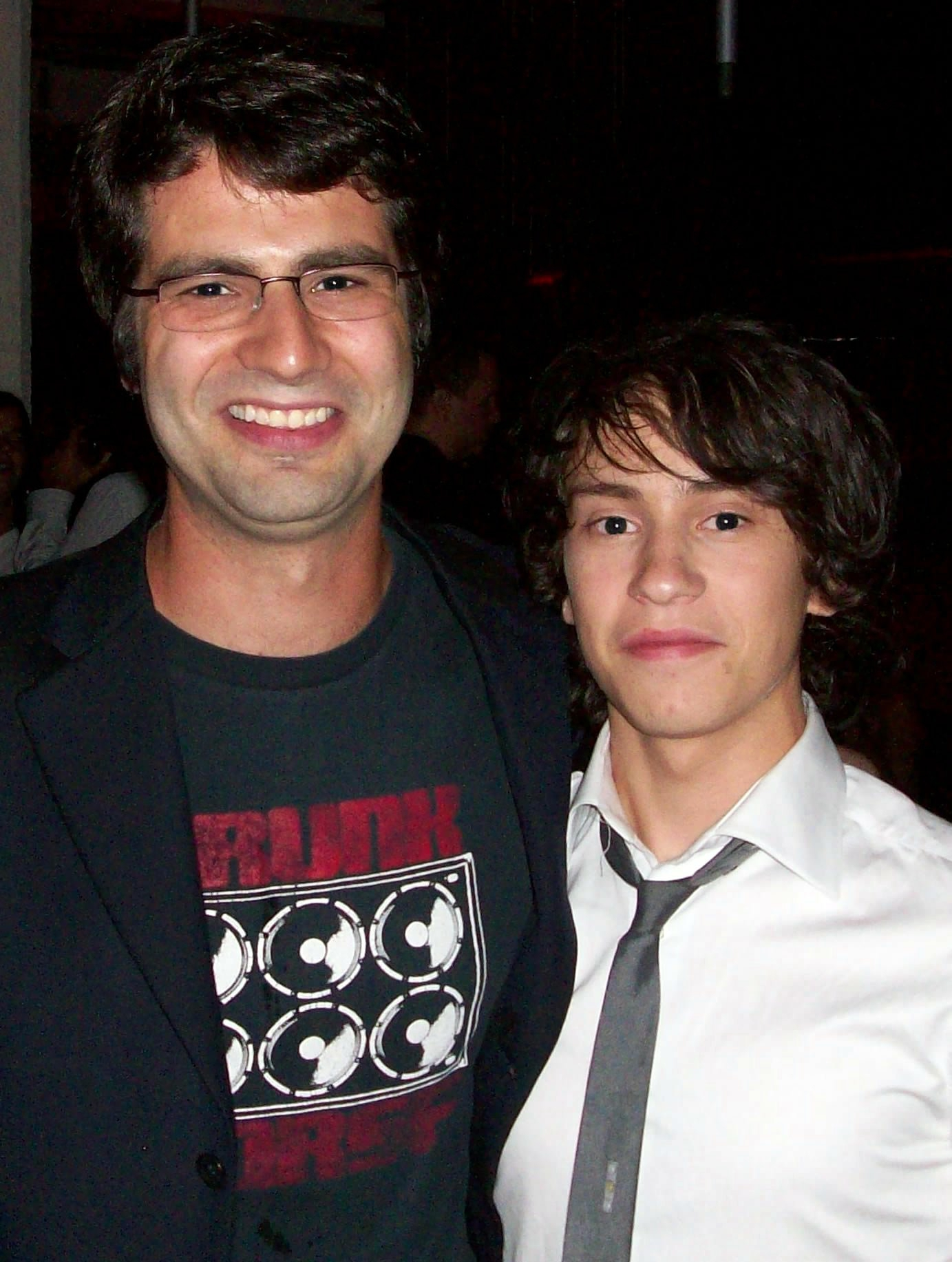 Ned Vizzini and Keir Gilchrist at Toronto International Film Festival, 9/11/10